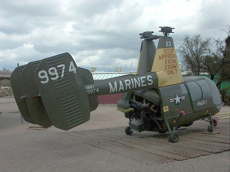 A former U.S. Marine Corps Kaman HOK-1 Huskie helicopter (BuNo 139974) at the Pima Air and Space Museum, Tucson, Arizona (USA), in 2006. The HOK-1 was redesignated OH-43D in 1962. It wears the markings of Marine Helicopter Squadron One (HMX-1), nicknamed "The Nighthawks", based at Marine Corps Air Facility Quantico, Virginia (USA). The squadron was and is responsible for the helicopter transportation of the president of the United States, vice president, cabinet members and VIPs.